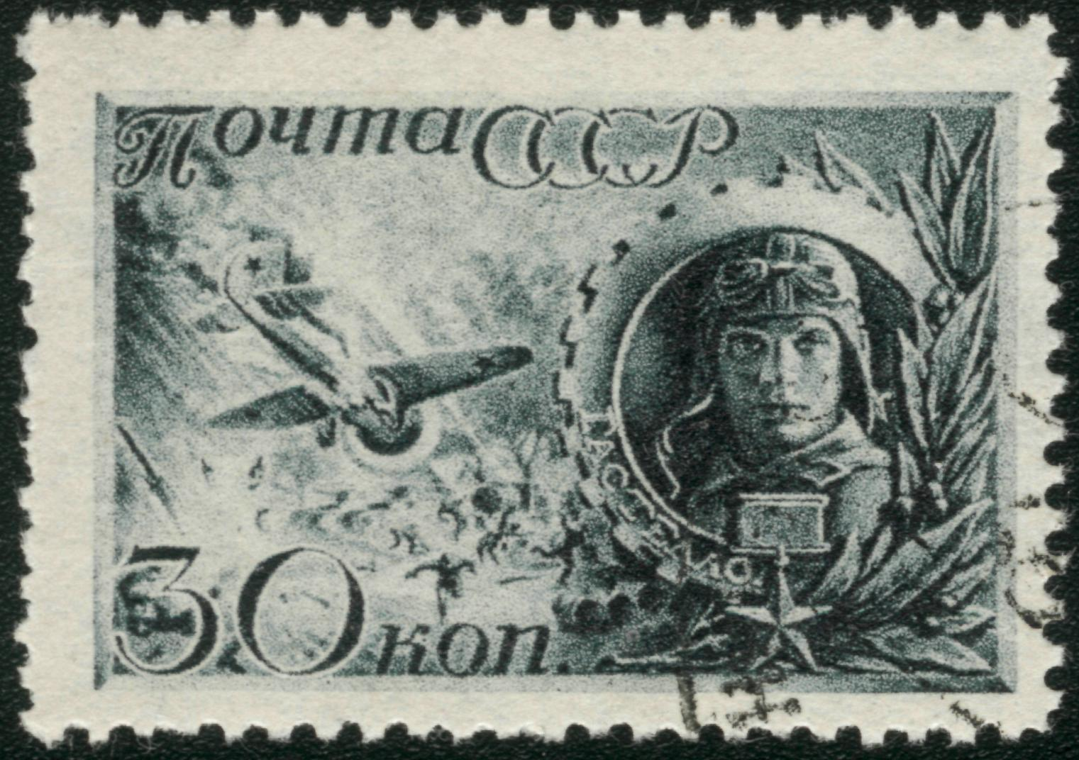 USSR postage stamp, November 1942: Gastello. Grey, 30 kop., cancelled. Shows Nikolai Gastello and his attack in DB-3F (Ilyushin Il-4) of German troops. CPA No. 824.